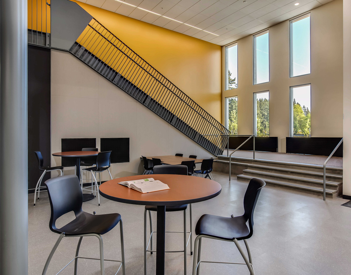 Interior image of STEM School